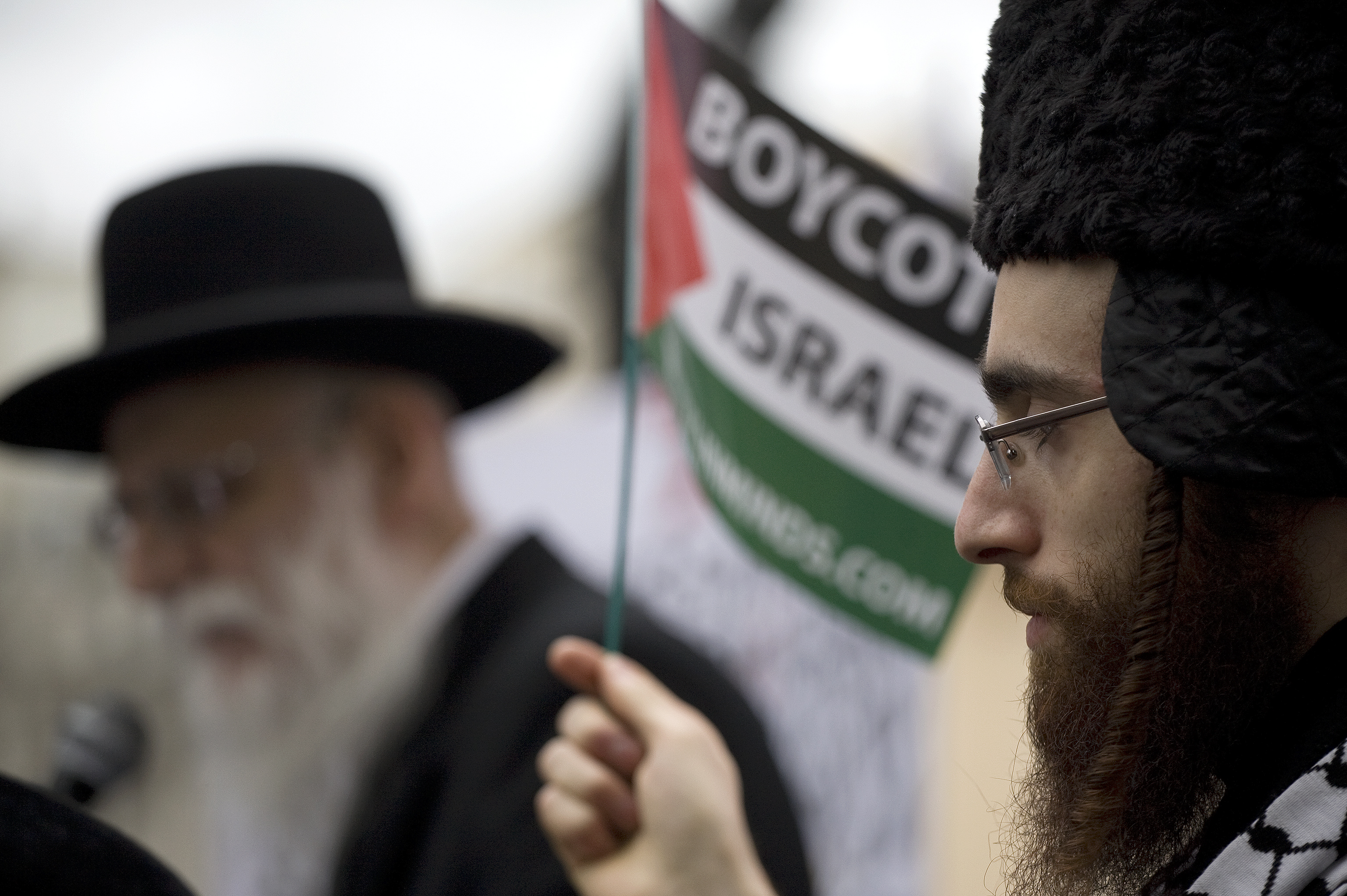 Haredi Jew holding a Palestinian flag with the text "Boycott Israel".